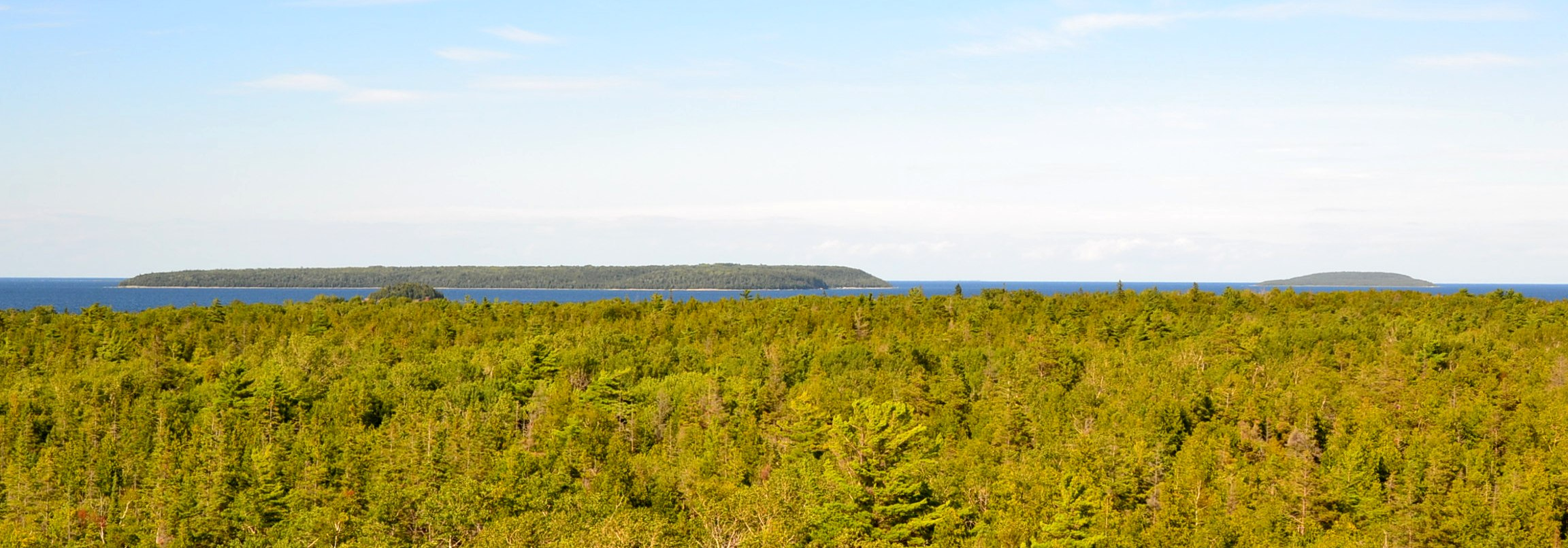 Fathom Five Marine National Park: view from the tower near Visitor Centre in Tobermory. Middle Island (the small), Flowerpot Island, Bears'Rump Island (to the right).